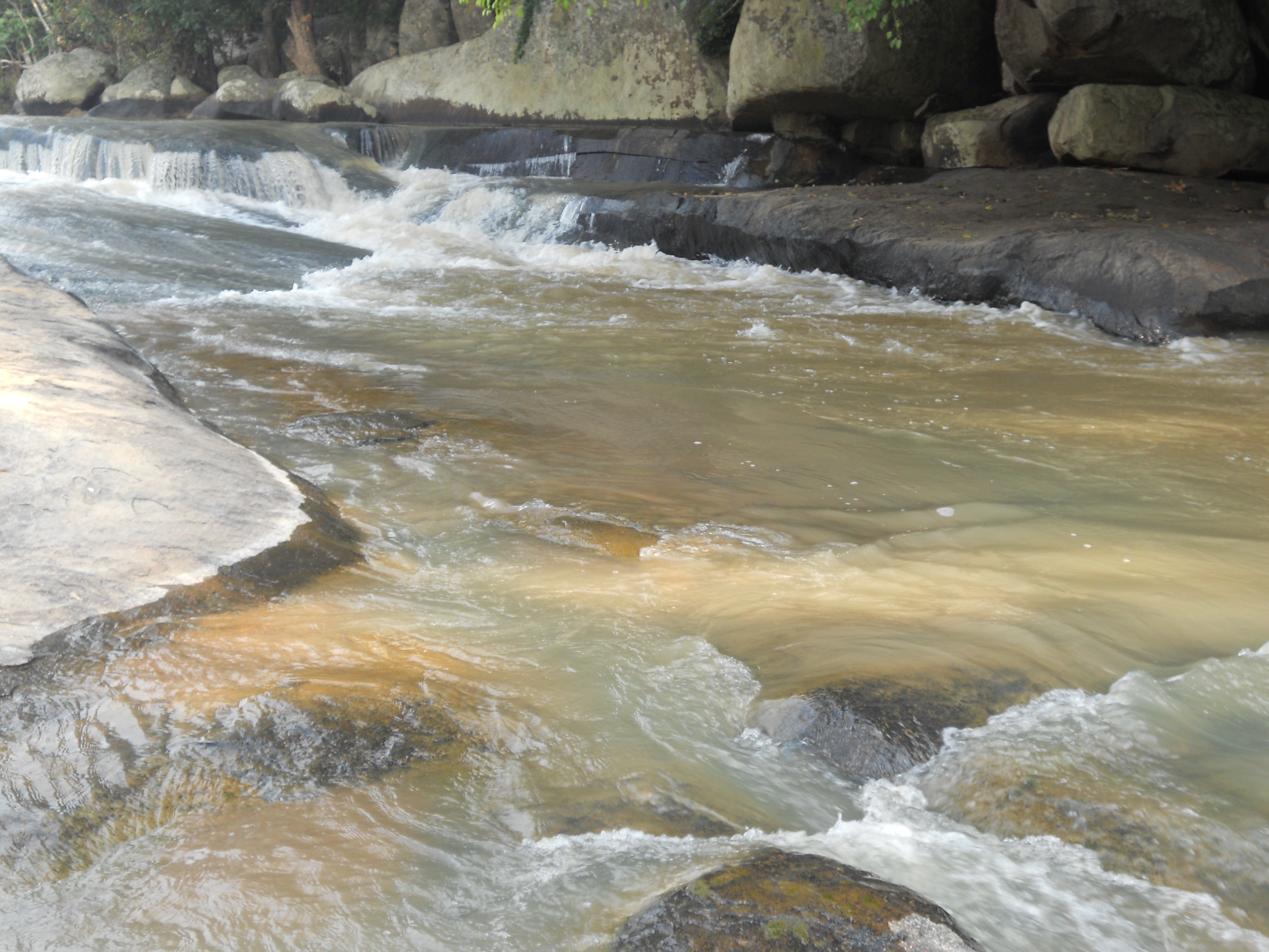 Lover's point at Daringbari, Orissa